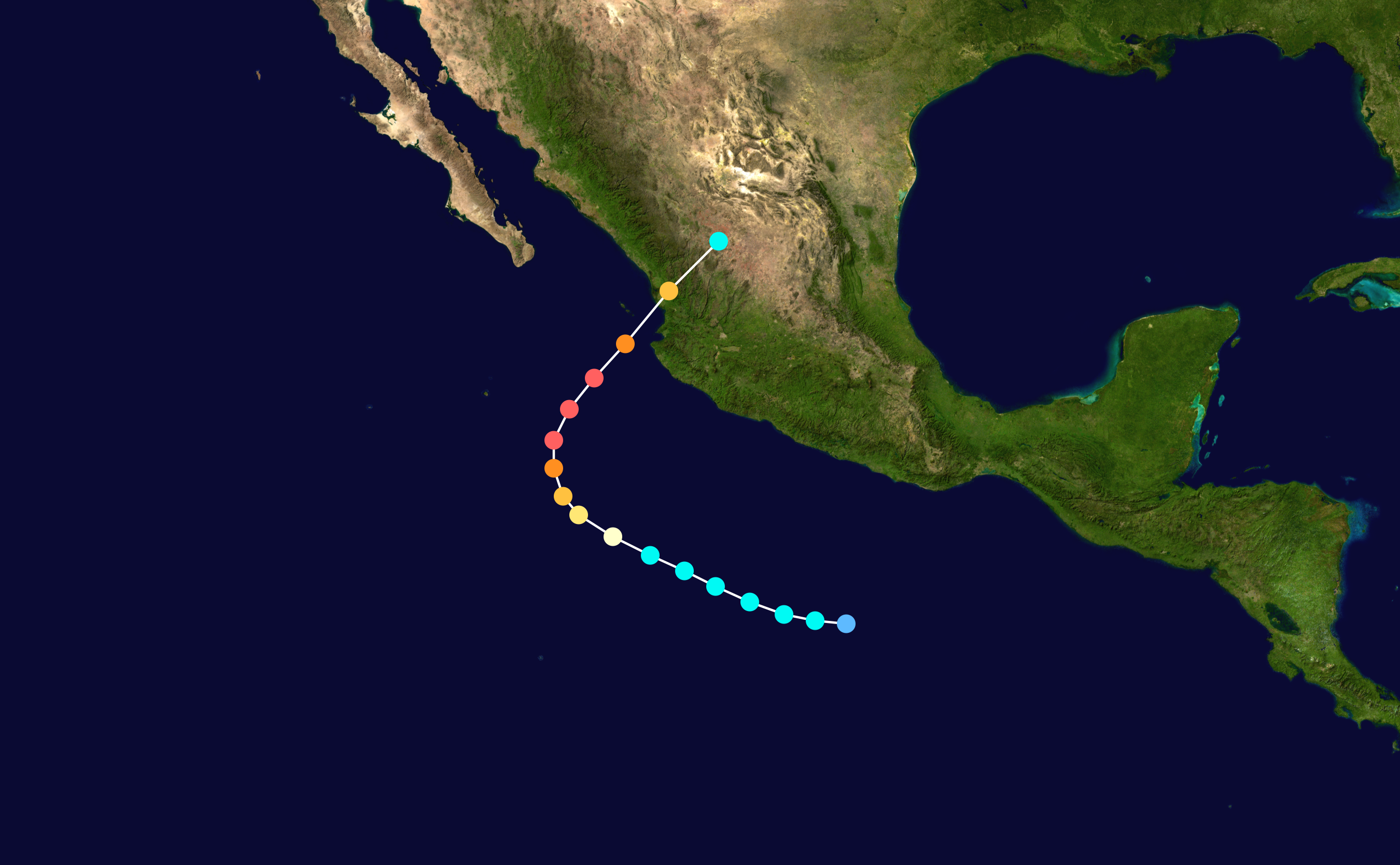 Hurricane Kenna (2002) track. Uses the color scheme from the Saffir-Simpson Hurricane Scale.